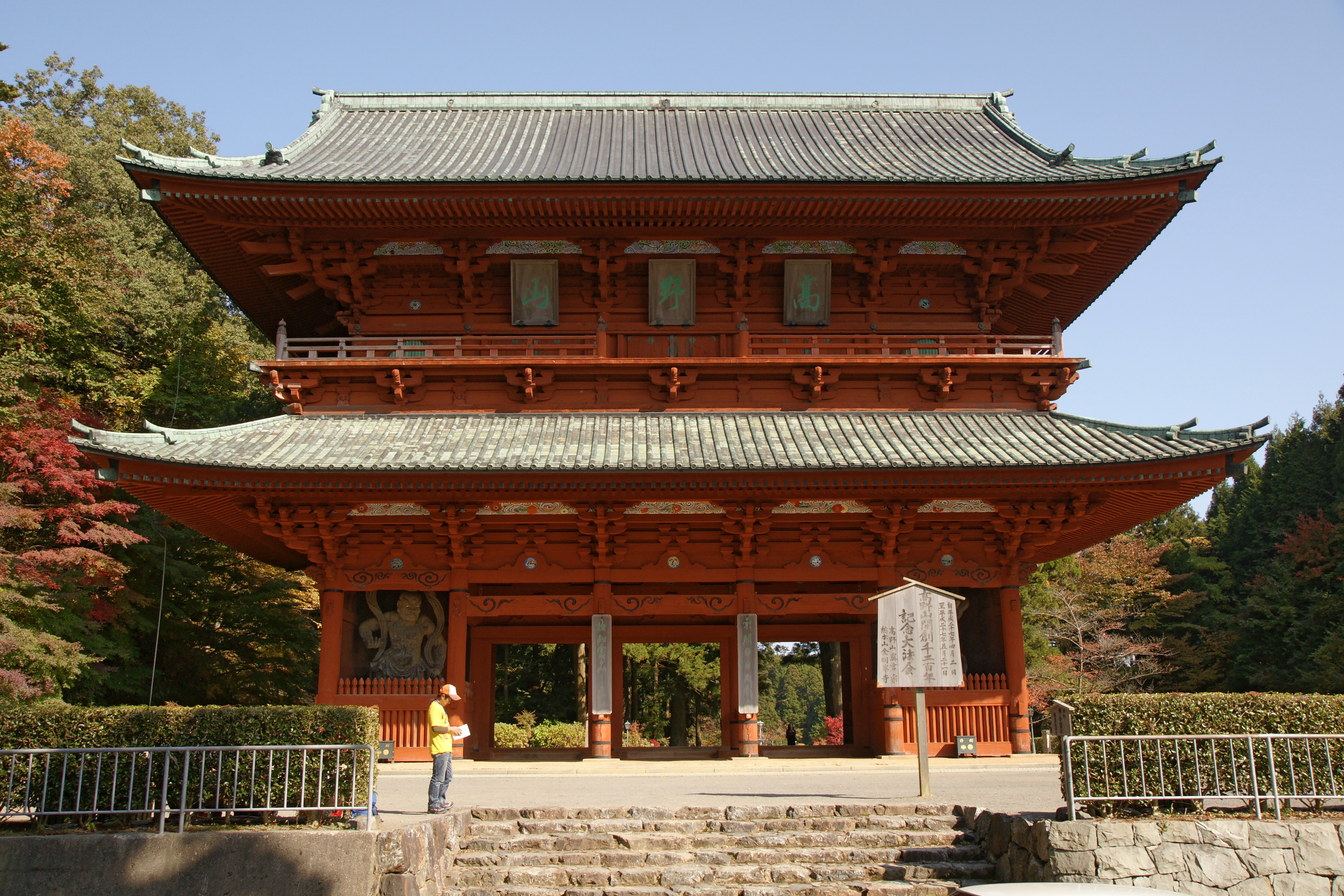 Daimon in Mount Kōya, Wakayama prefecture, Japan.